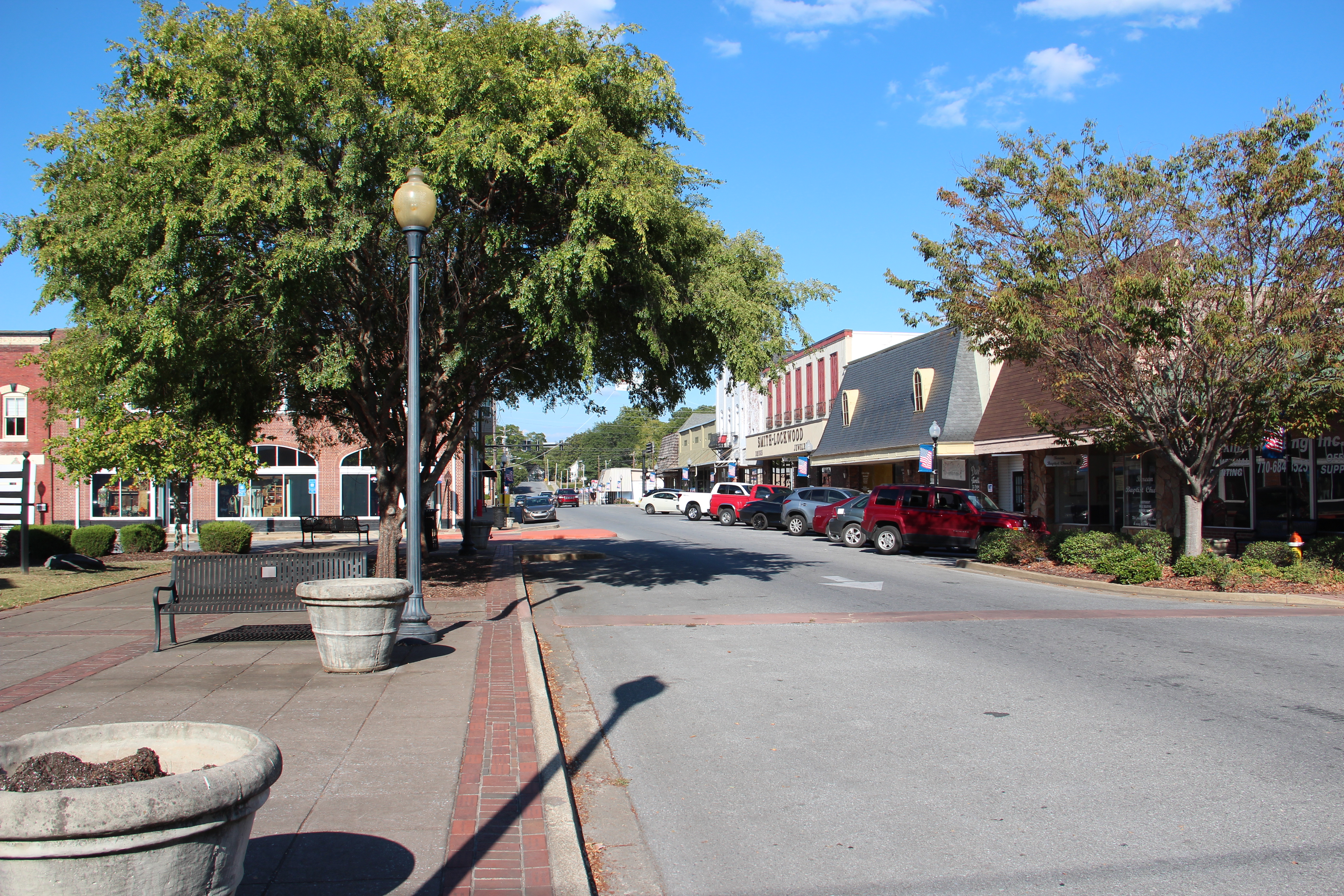 Rockmart Downtown Historic District in October 2016